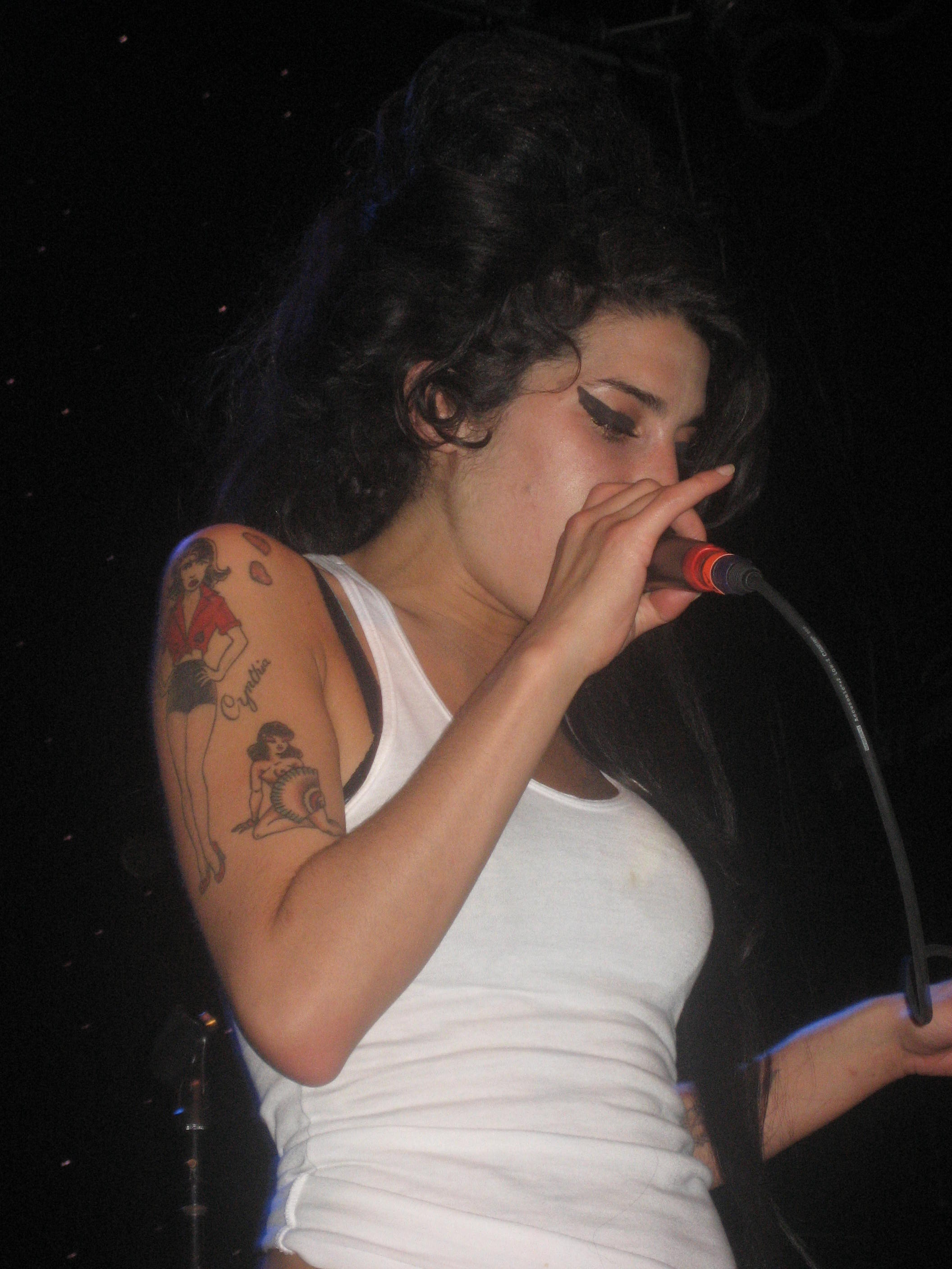 amy winehouse at the Avalon, Boston